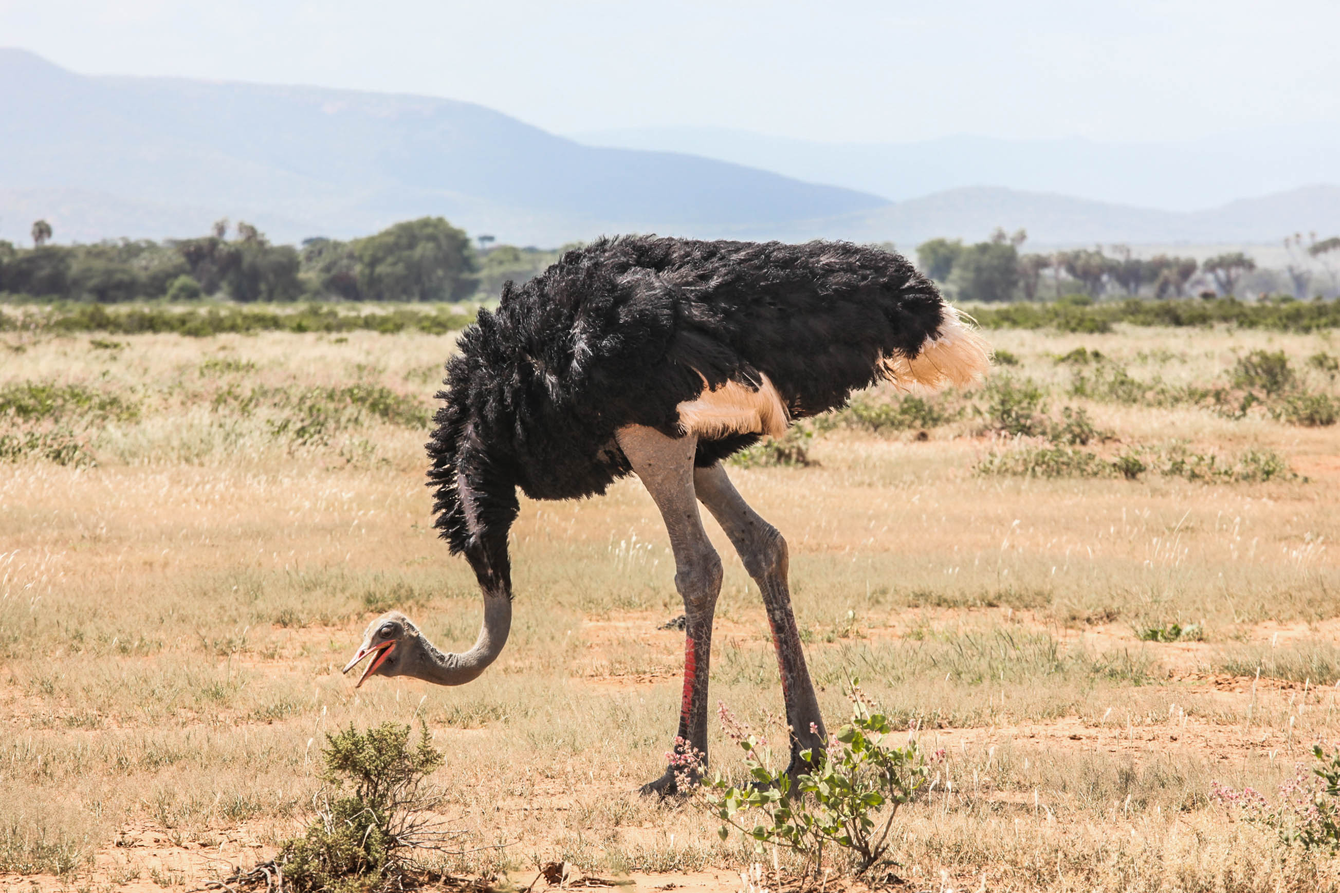 A male Somali Ostrich at Samburu National Reserve, Kenya.